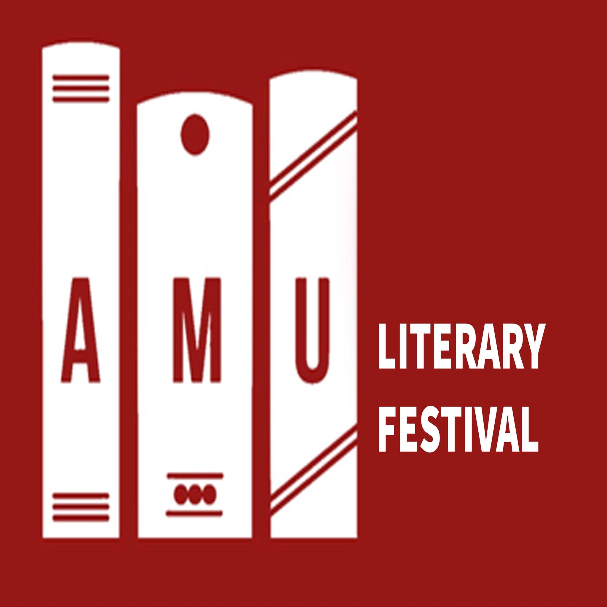 Logo of the AMU Literary Festival